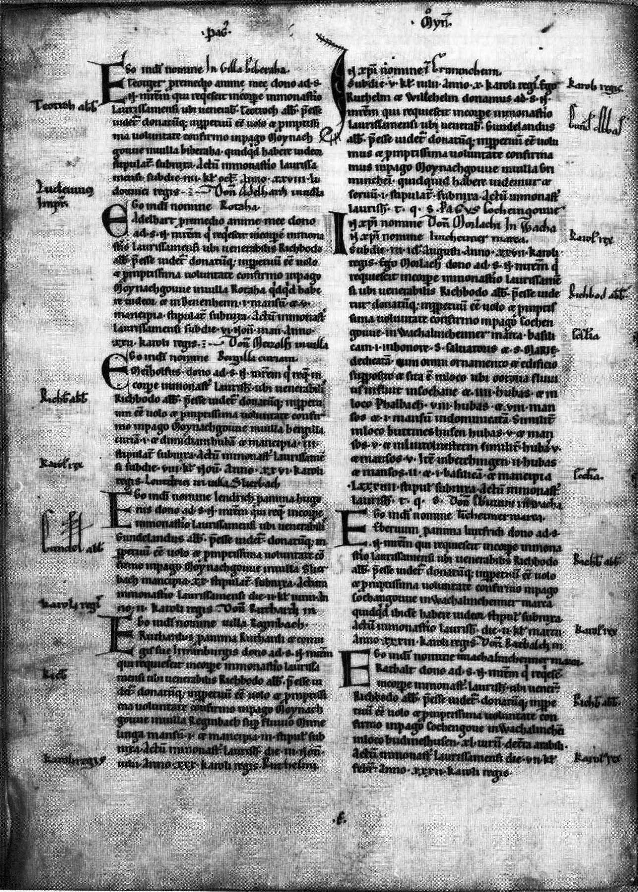 Lorscher Kodex Böckingen 11. August 795